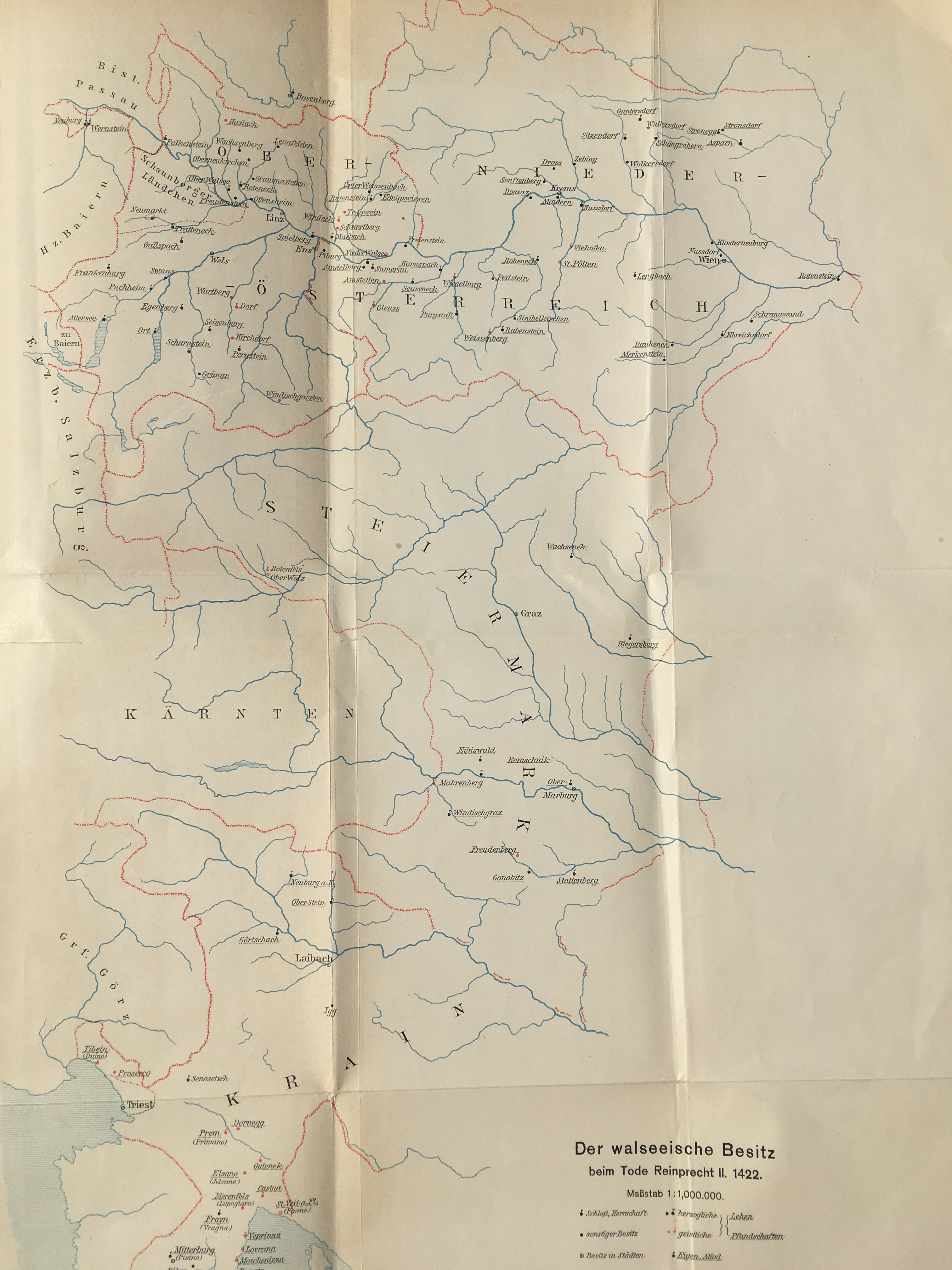 Walsee 1422 property (Doblinger 1906)